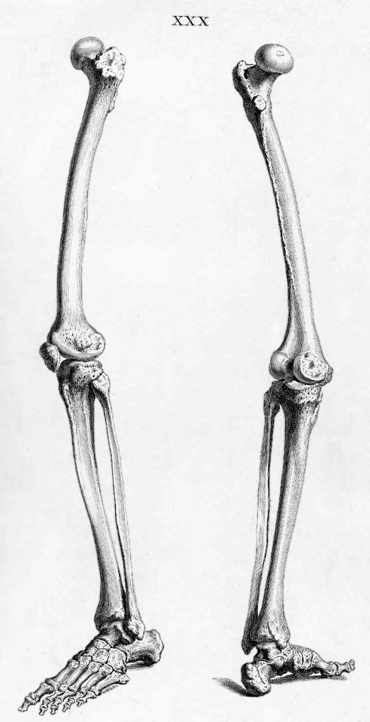 William Cheselden: Osteographia, or The anatomy of the bones. Uploader=Kuebi 17:45, 2 April 2007 (UTC)